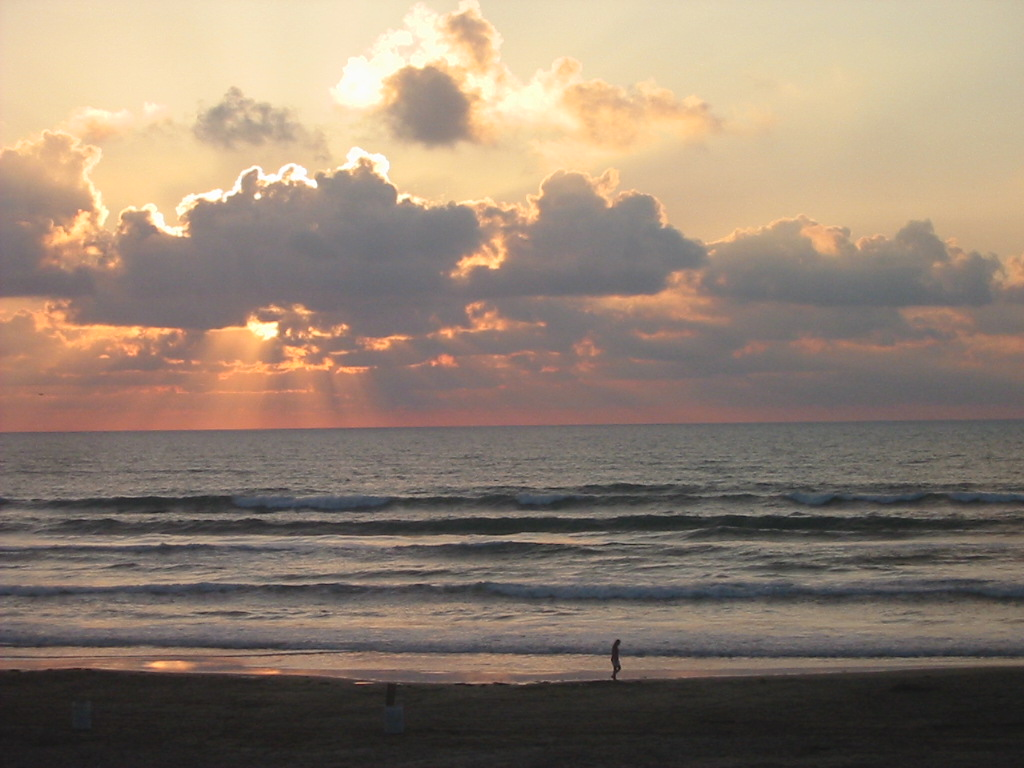 South Padre Island: A person takes advantage of the early morning for peace and quiet.